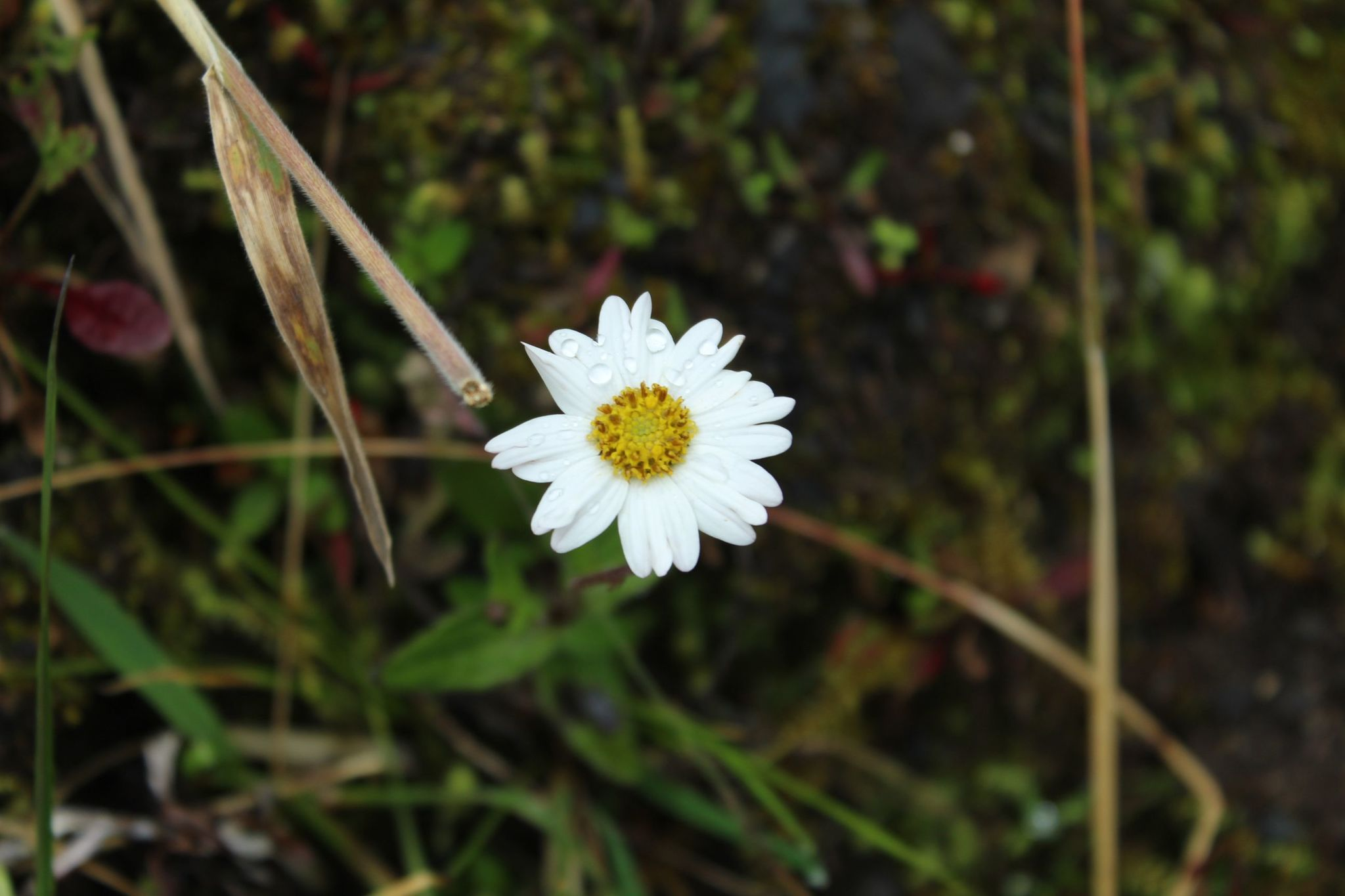 Sabazia trianae. Species of plant.